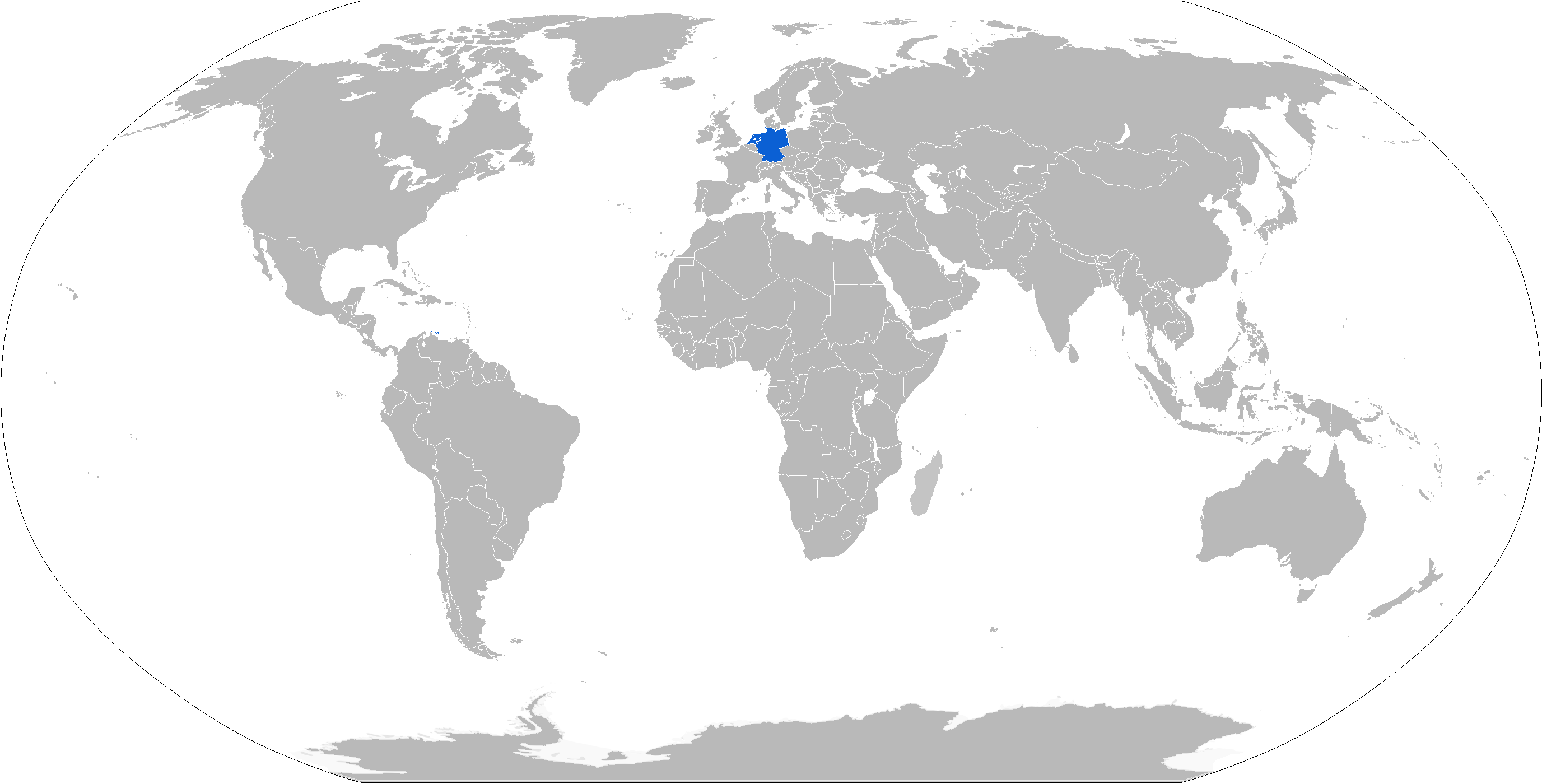 Map with Fennek operators in blue